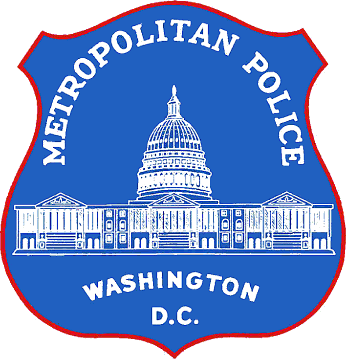 The seal of the Metropolitan Police Department of the District of Columbia (MPDC). As a work of a U.S. federal agency, it is in the public domain.